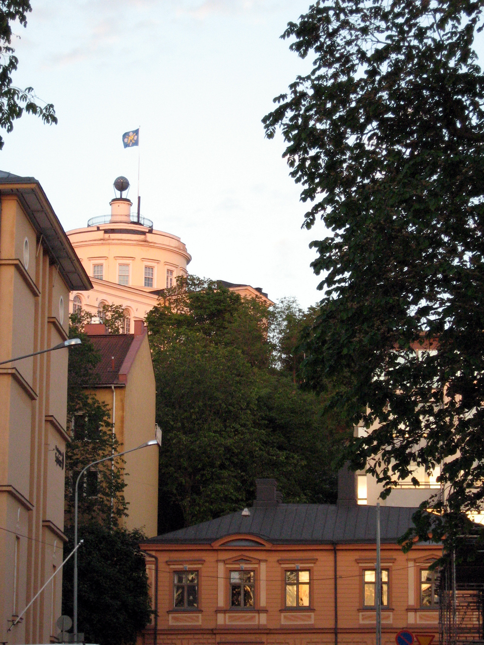 The old observatory of Turku